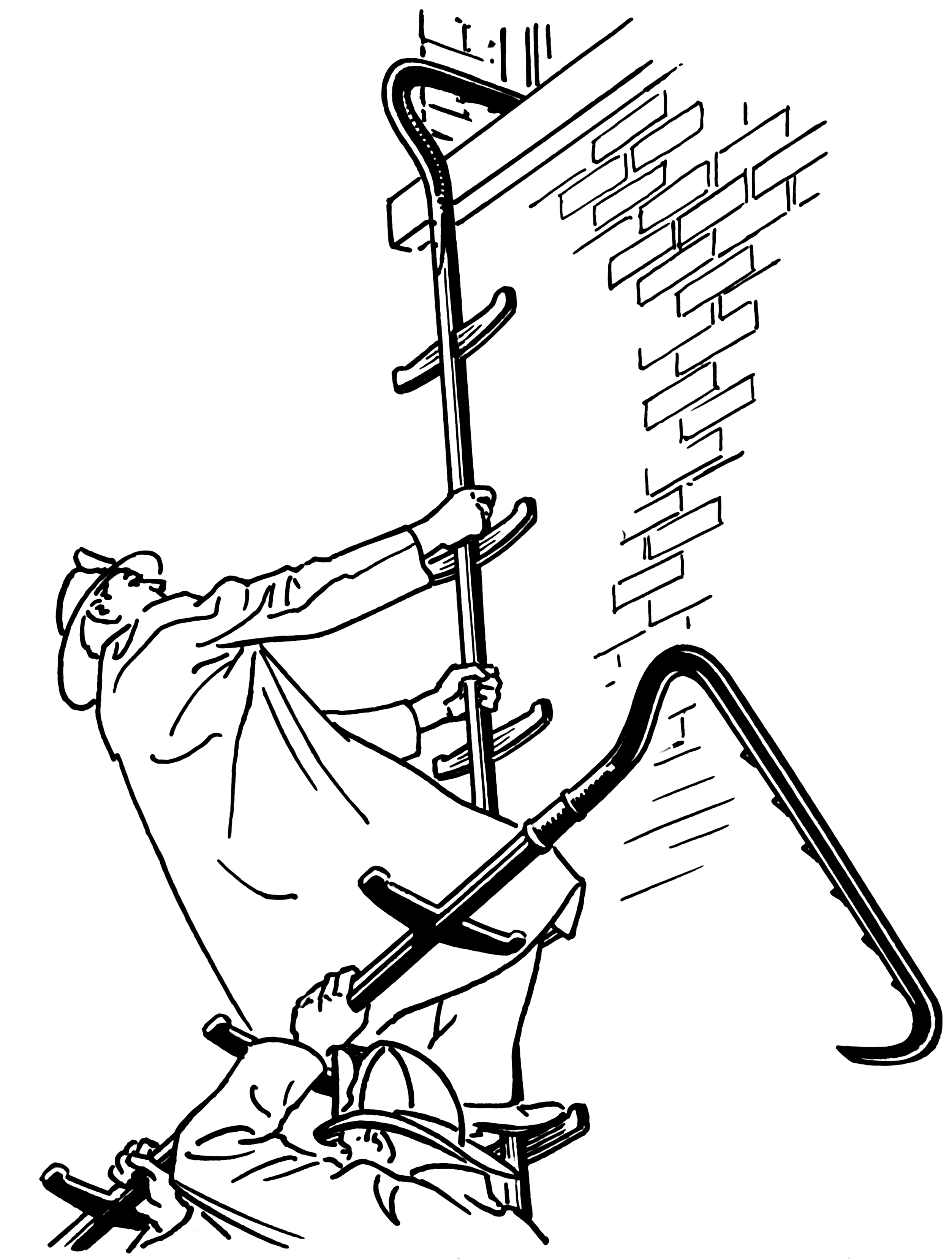 Line art of scaling ladder.